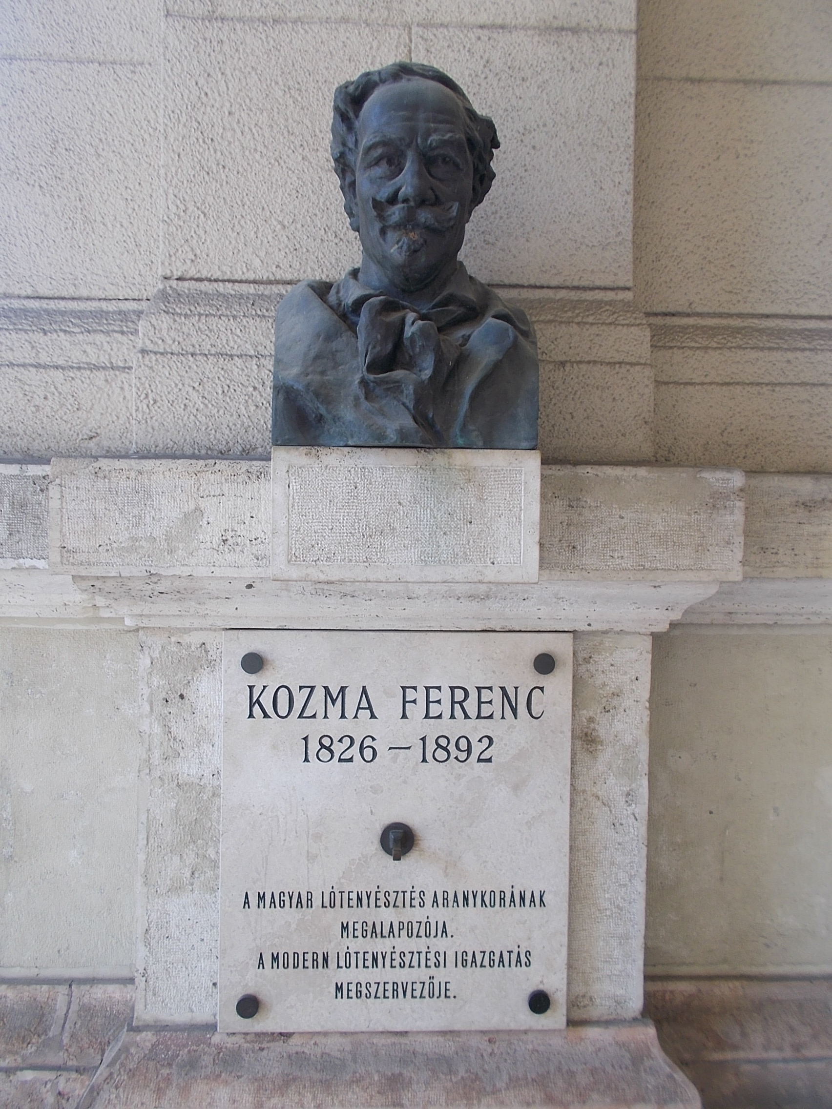 Ferenc Kozma by György Zala (1893 bronze bust and stone plaque). - Ministry of Agriculture South Arcade, 11 Kossuth square, Lipótváros, District V of Budapest.